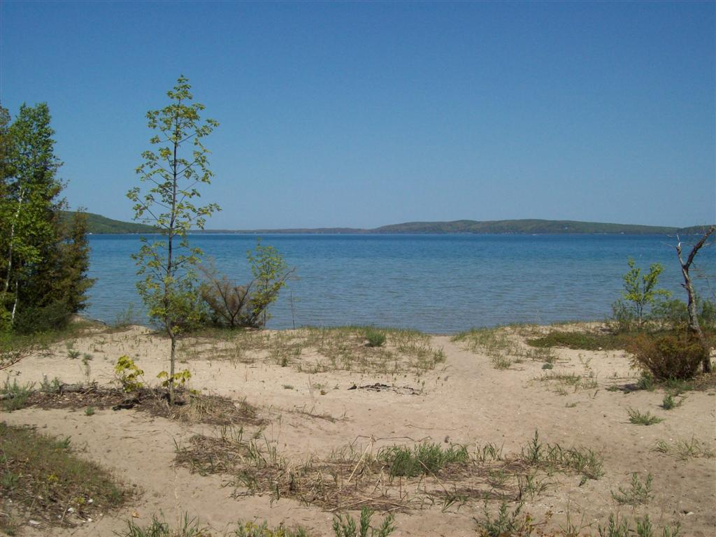 Crystal Lake Near M-115 and off of bike trail